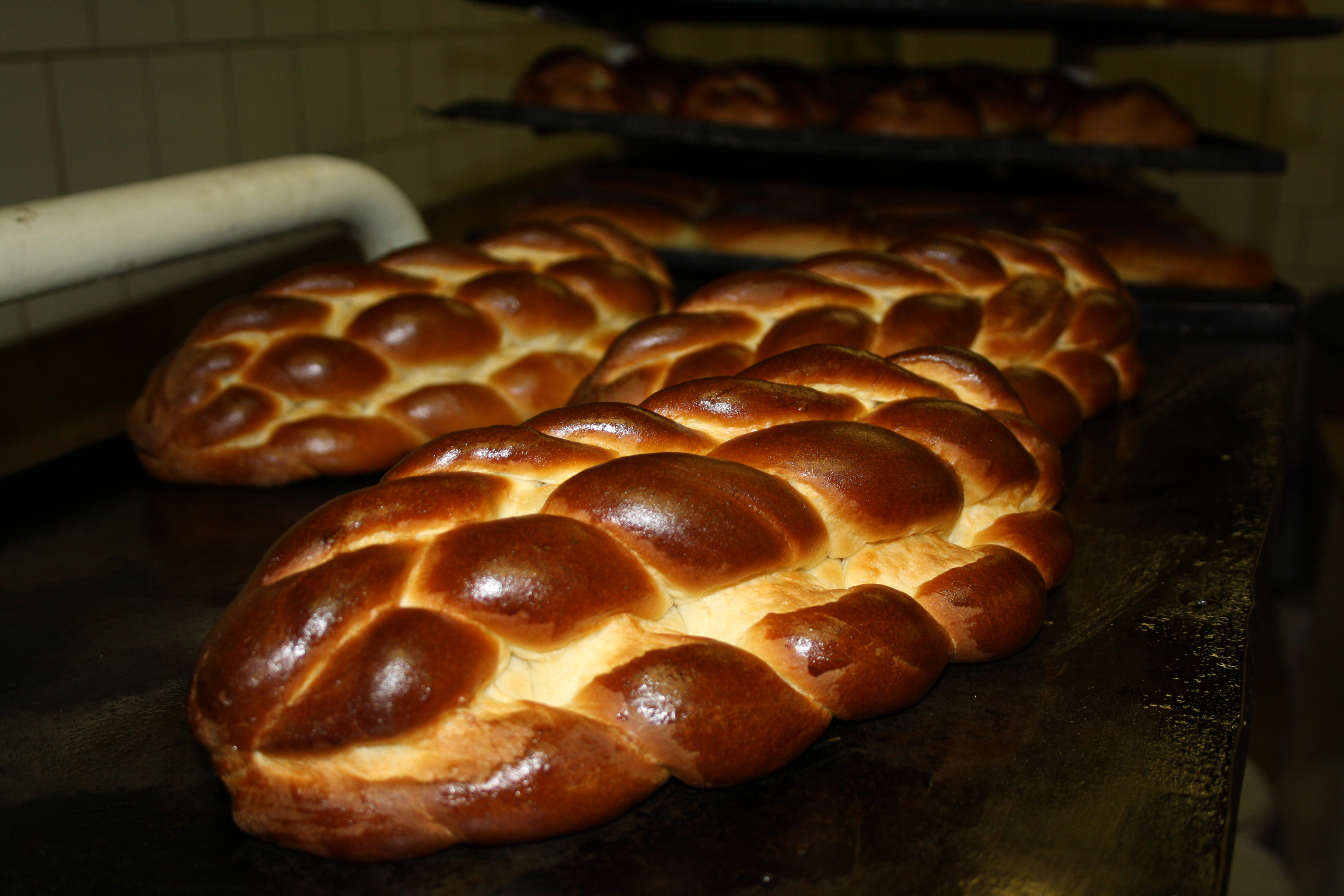 Production process of sweet bread called vánočka, Czech Republic This photograph was taken with a DSLR from WMCZ's Camera grant. This picture was taken and/or got within the scope of the 'Acquiring scientific and specialized pictures' grant.